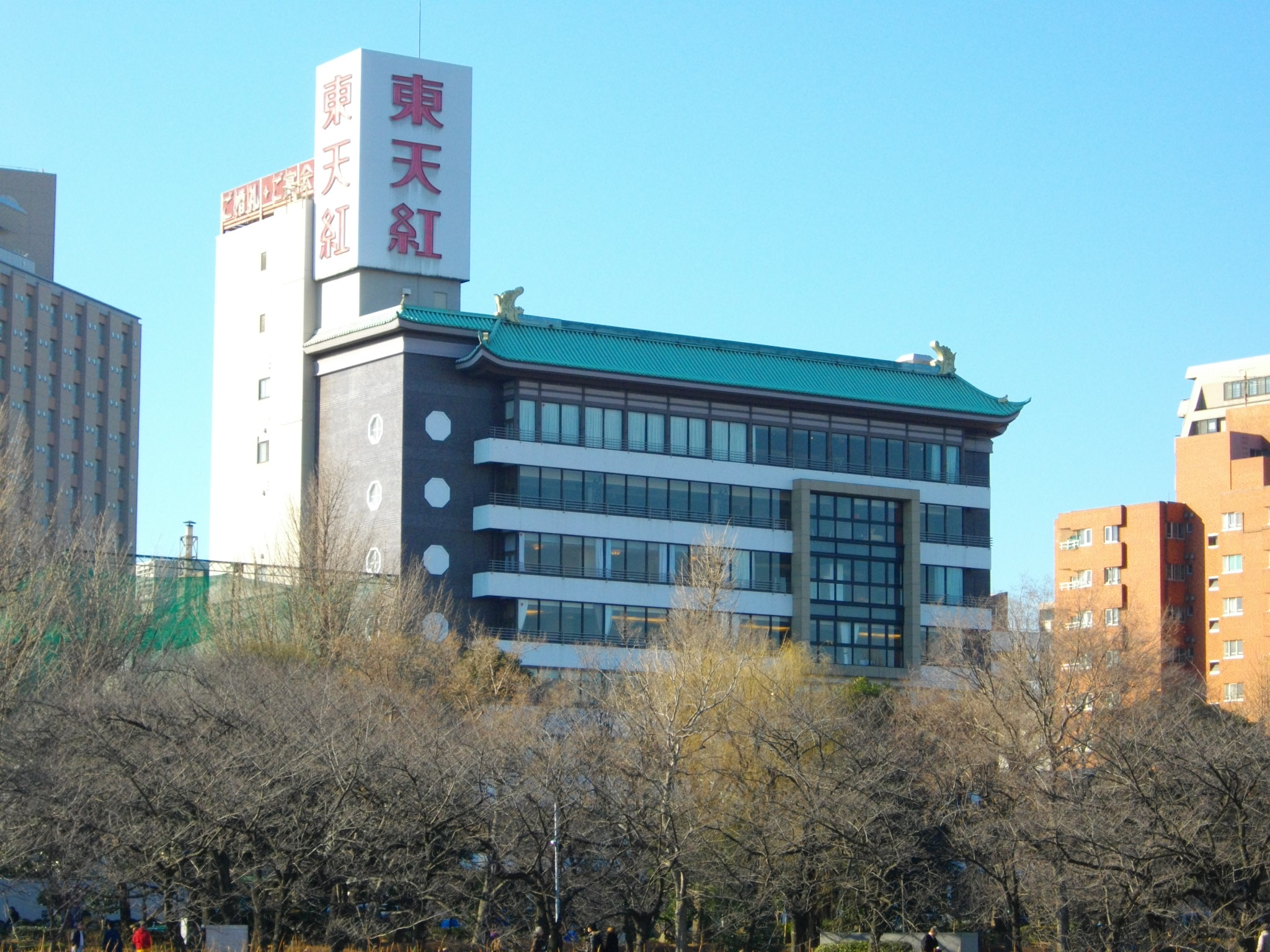 Totenko Head Office